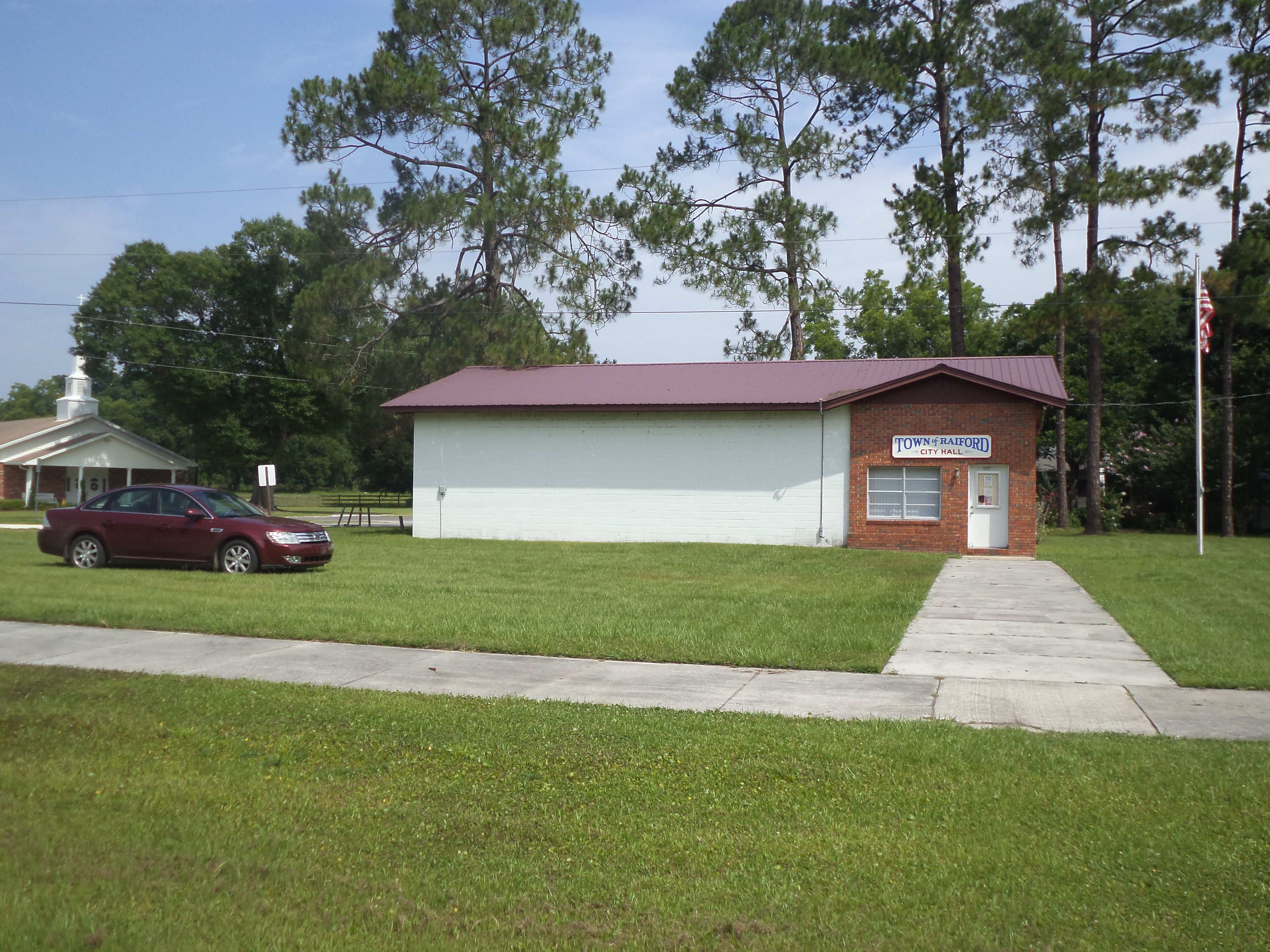 Raiford City Hall, 13172 County Road 229, Raiford, Union County, Florida